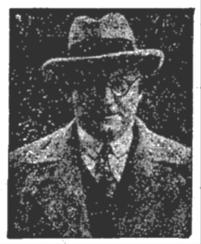 Gustav Winter (1882-1936), German politician